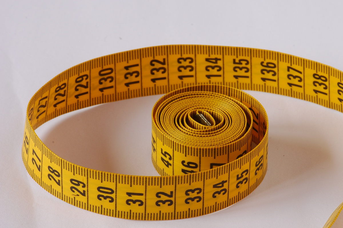 Tape measure